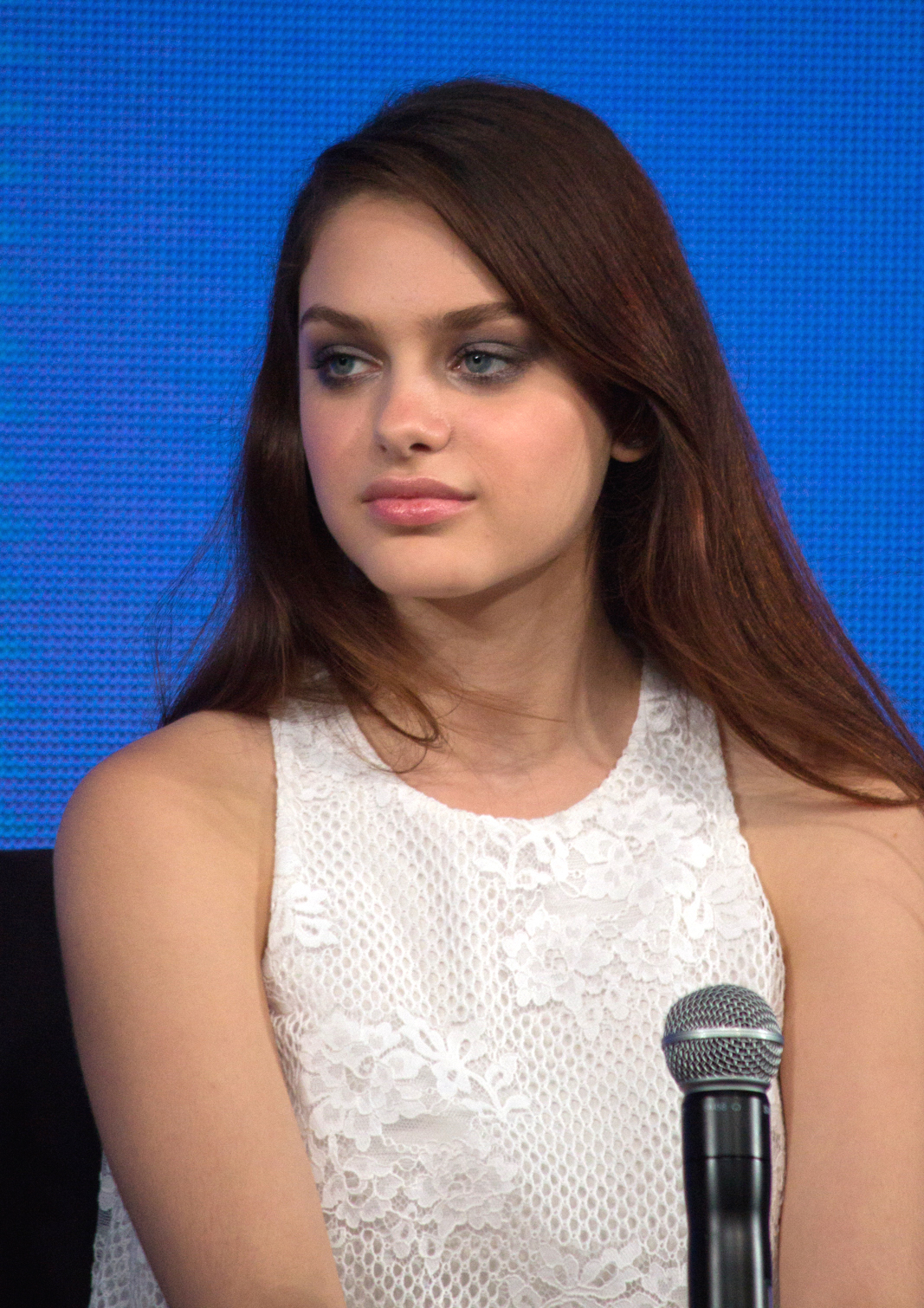 Actress Odeya Rush at Nerd HQ 2014's panel for The Giver